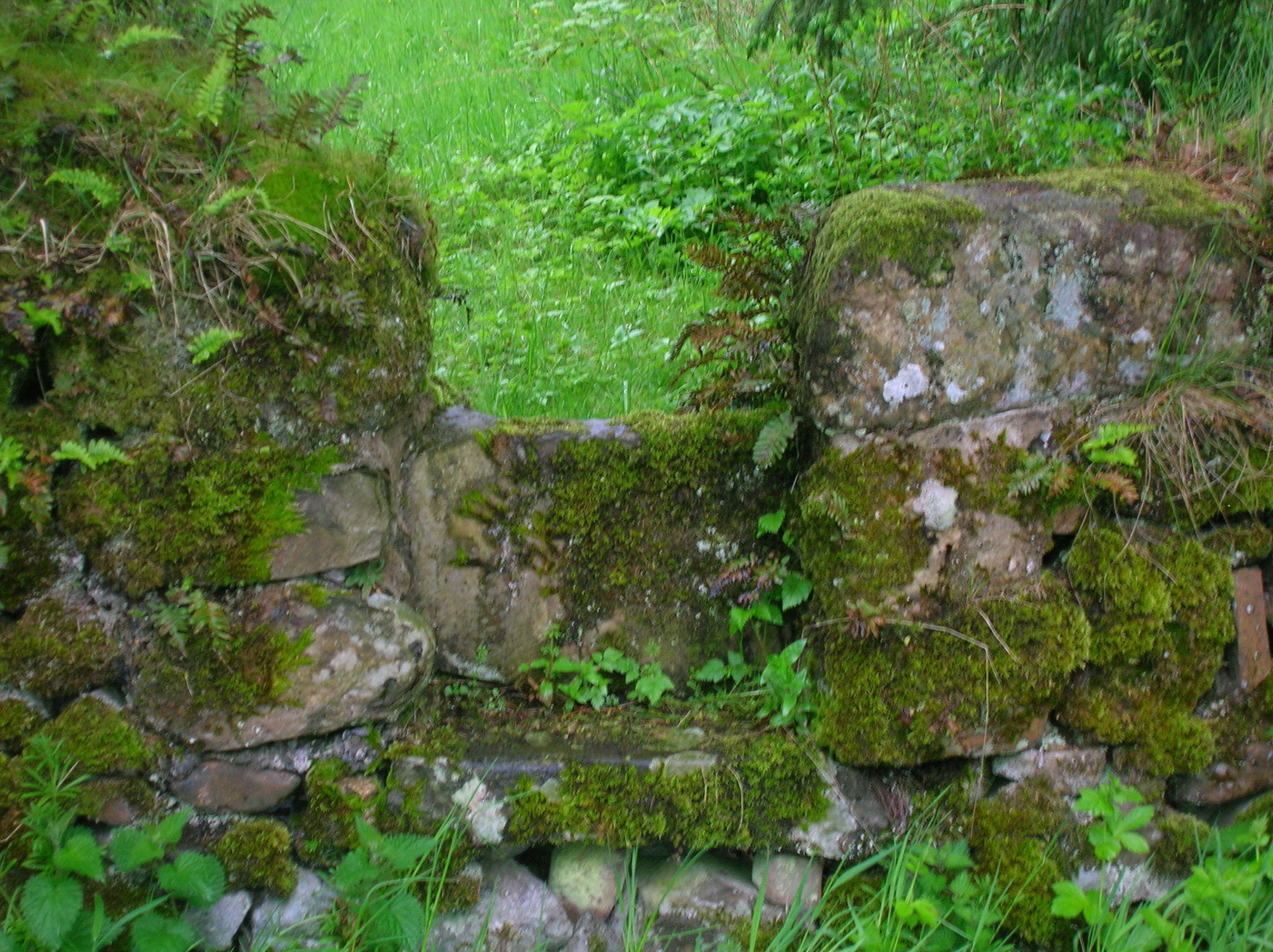 An old Stile at 'The Hill' farm, Dunlop, East Ayrshire, Scotland. 2007. Rosser 12:40, 19 May 2007 (UTC)